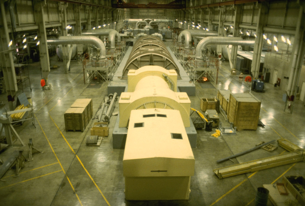 Interior of the turbine building at the Donald C. Cook Nuclear Generating Station, located in Bridgman, Michigan, USA. In the foreground is the Unit 1 electrical generator (yellow), followed by the Unit 1 low pressure turbines (brown). In the background are the Unit 2 turbine and generator. The large silver pipes contain the steam going to the various parts of the turbine.